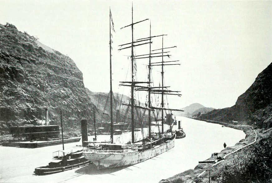 Four-masted Barkentine John Ena of San Francisco being towed through Panama Canal